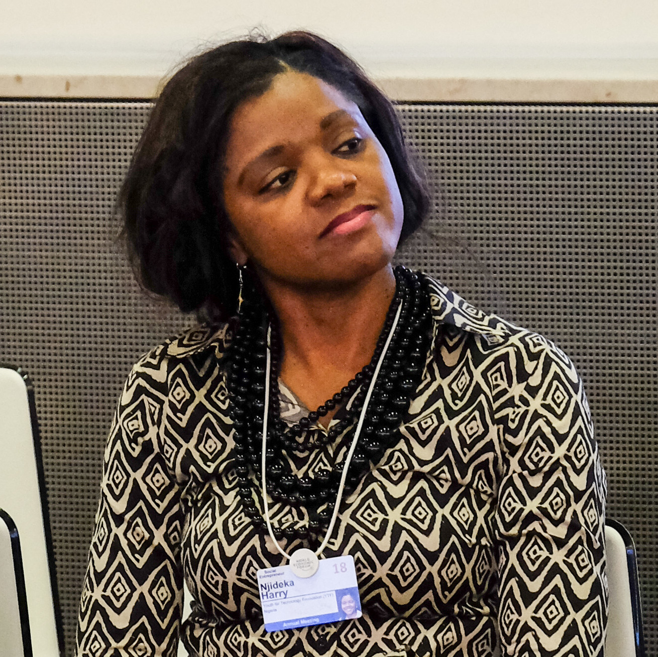 Social Entrepreneurs Wrap-up Njideka Harry and Hilde Schwab